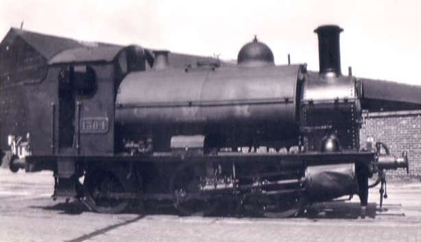 Engine #1364 at Plymouth Dock